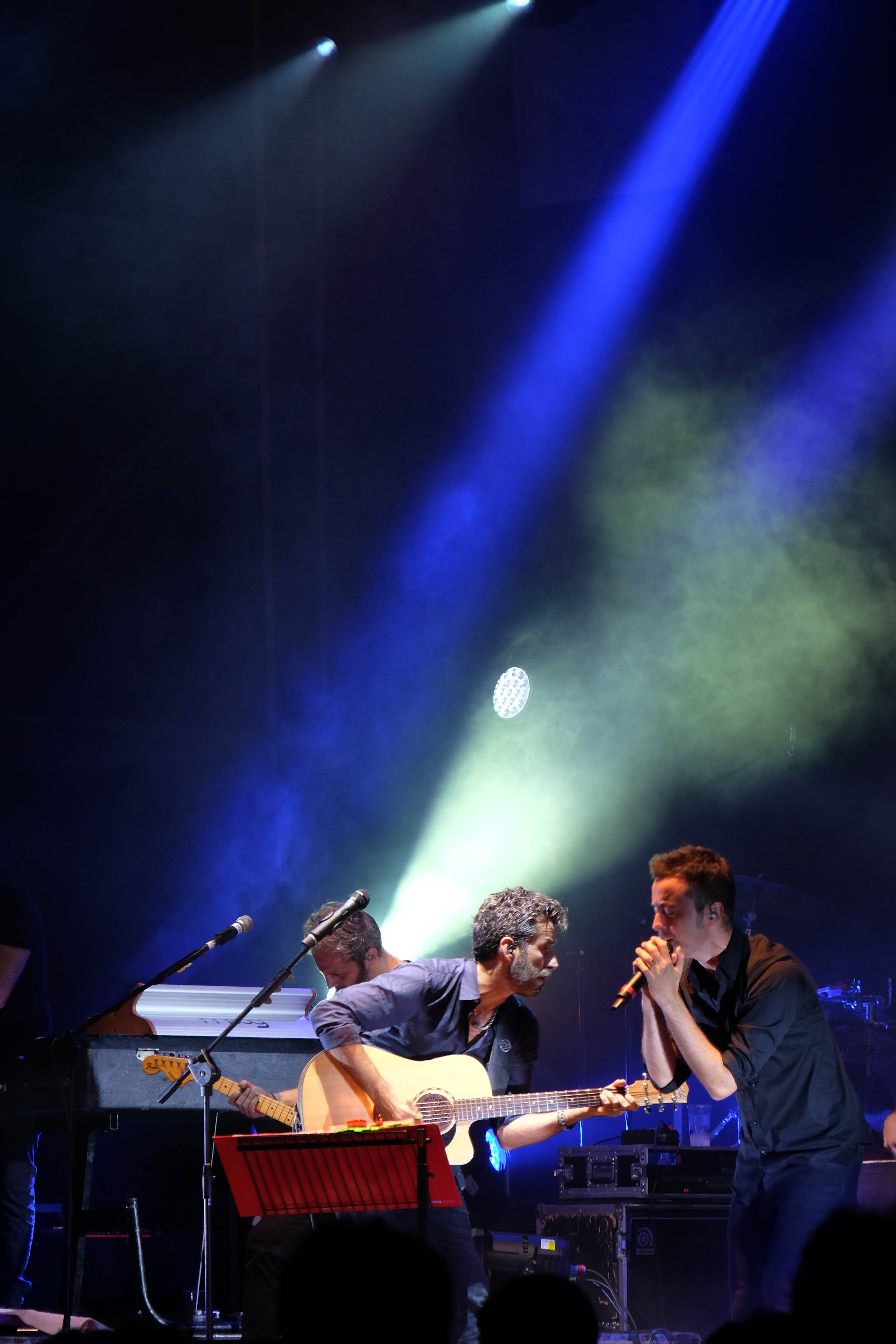 Rocking with Antonio Diodato (right).